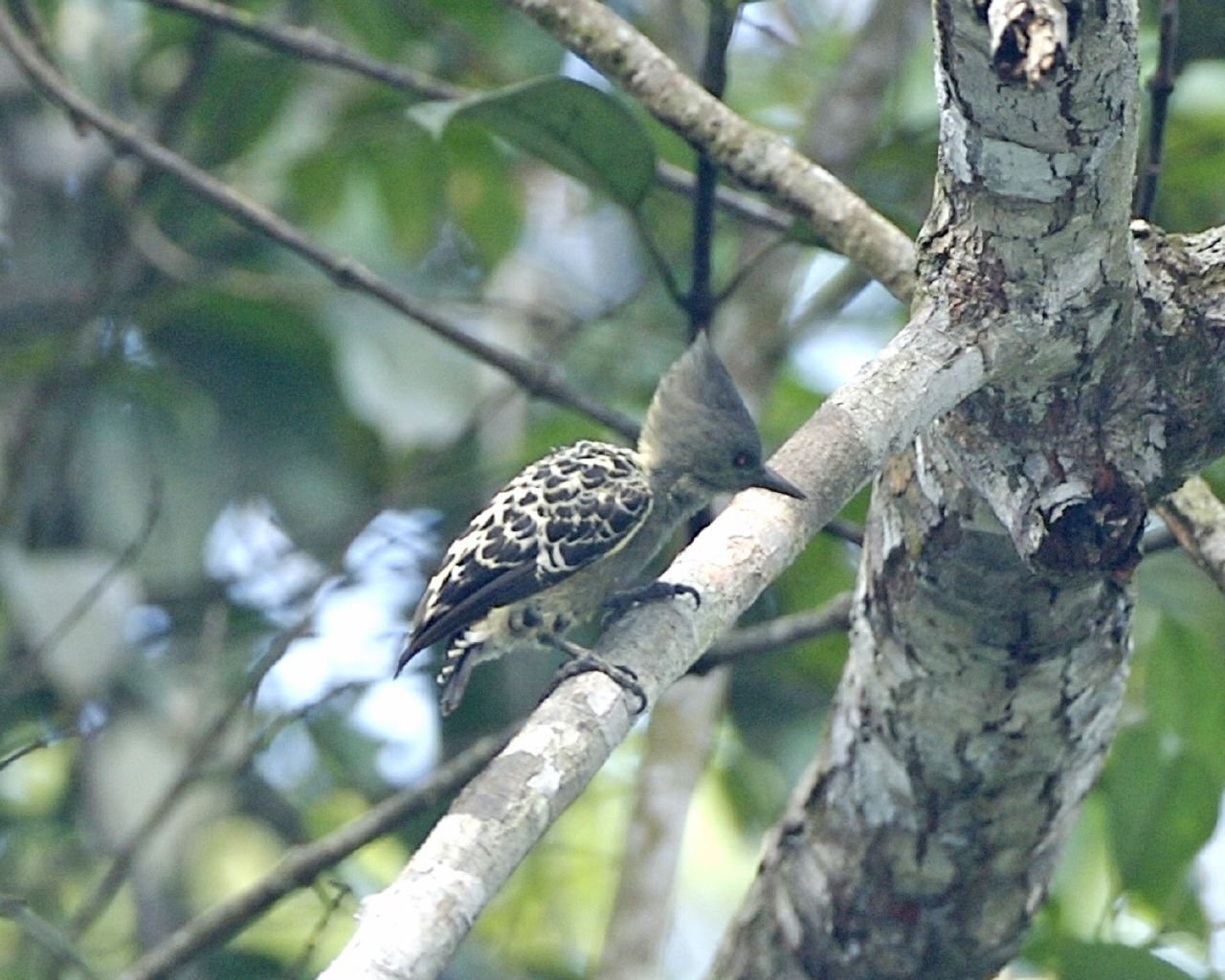 Grey-and-buff Woodpecker Hemicircus concretus. Location: Panti Forest, Johor, Malaysia.